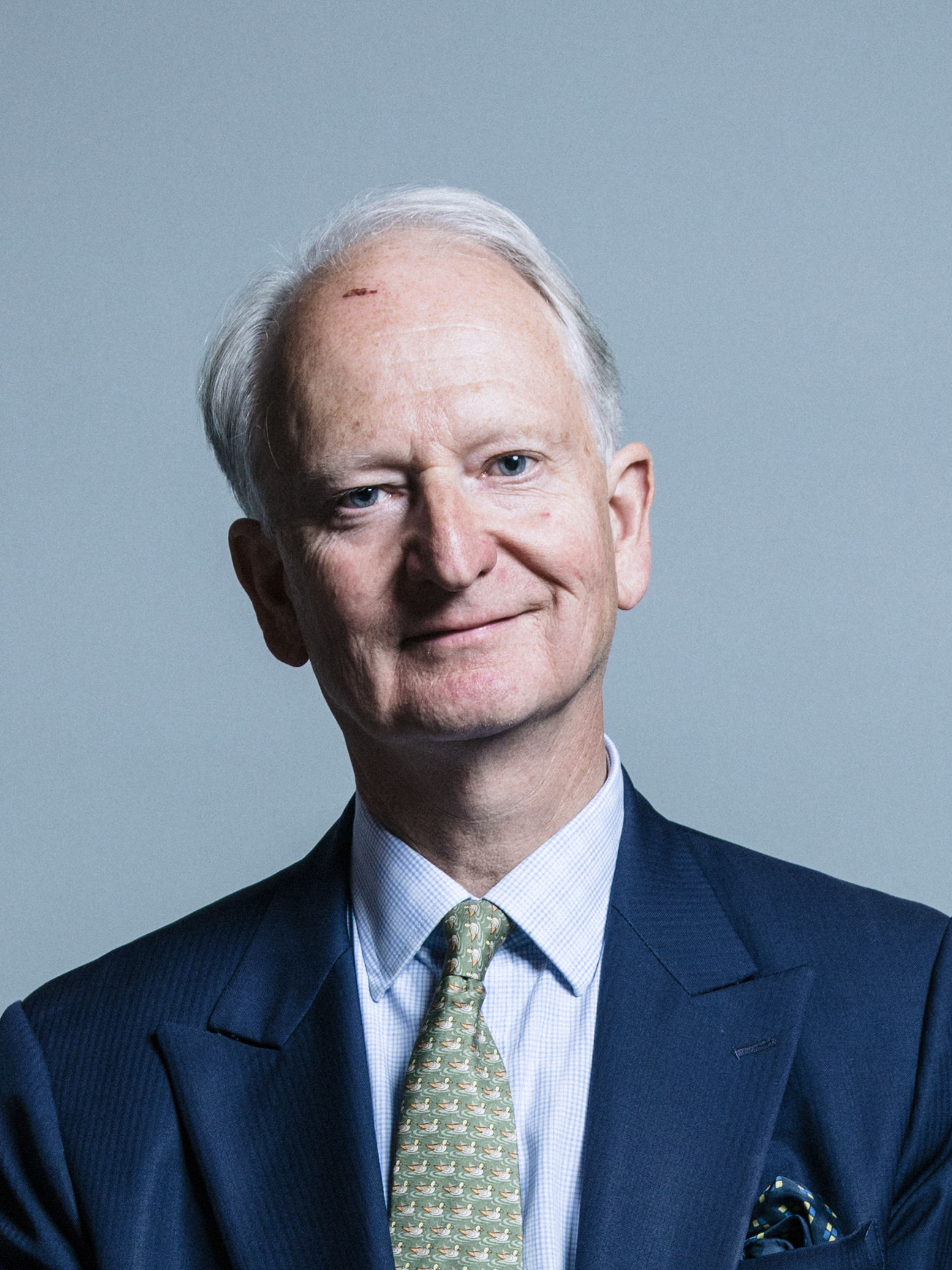 Official portrait of Sir Henry Bellingham